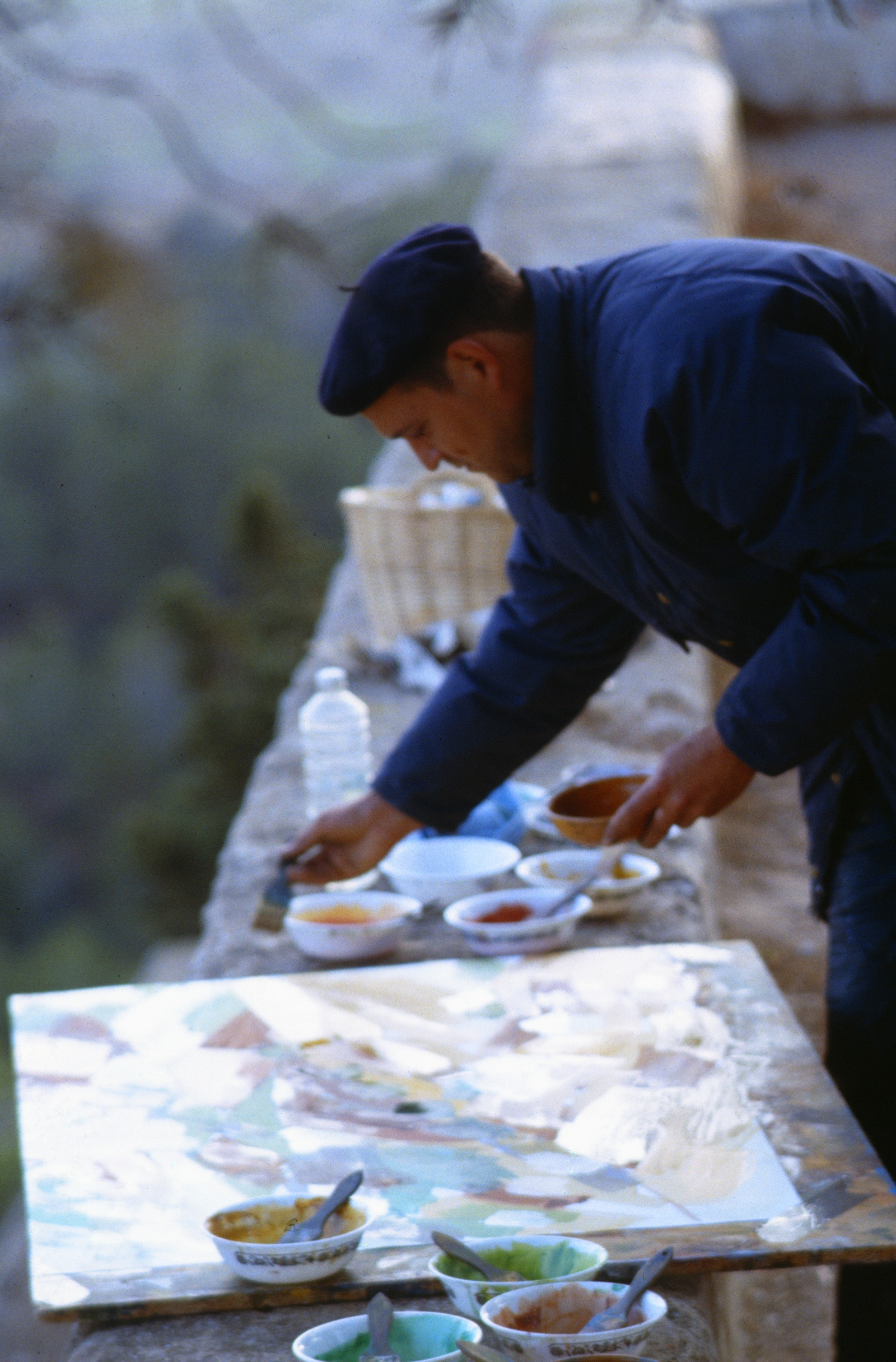 The artist Gottfried Mairwöger